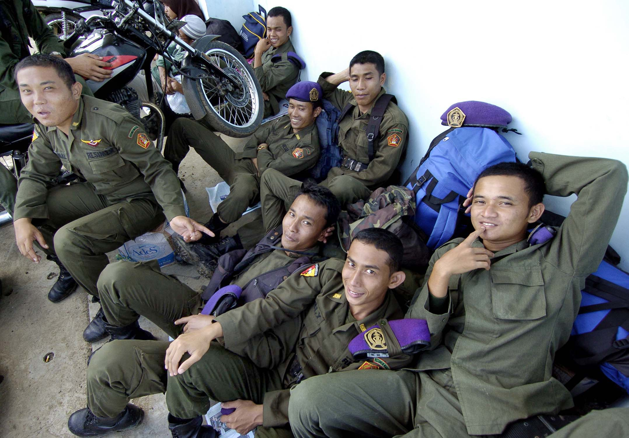 Indonesia (Jan. 14, 2005) - Indonesian Student Regiment personnel in Banda Aceh, Sumatra, show smiles of hope after the devastating tsunami destroyed many of their homes in the area. U.S. Military personnel are assisting local authorities using helicopters to transport supplies, bringing in disaster relief teams, and supporting humanitarian airlifts to tsunami-stricken coastal regions. The Abraham Lincoln Carrier Strike Group and her embarked Carrier Air Wing Two (CVW-2) are currently operating in the Indian Ocean region off the coast of Indonesia and Thailand. U.S. Navy photo by Photographer's Mate 3rd Class Tyler J. Clements (RELEASED)